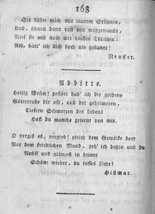 Erstdruck von Friedrich Hölderlins Abbitte in Taschenbuch für Frauenzimmer von Bildung 1799.